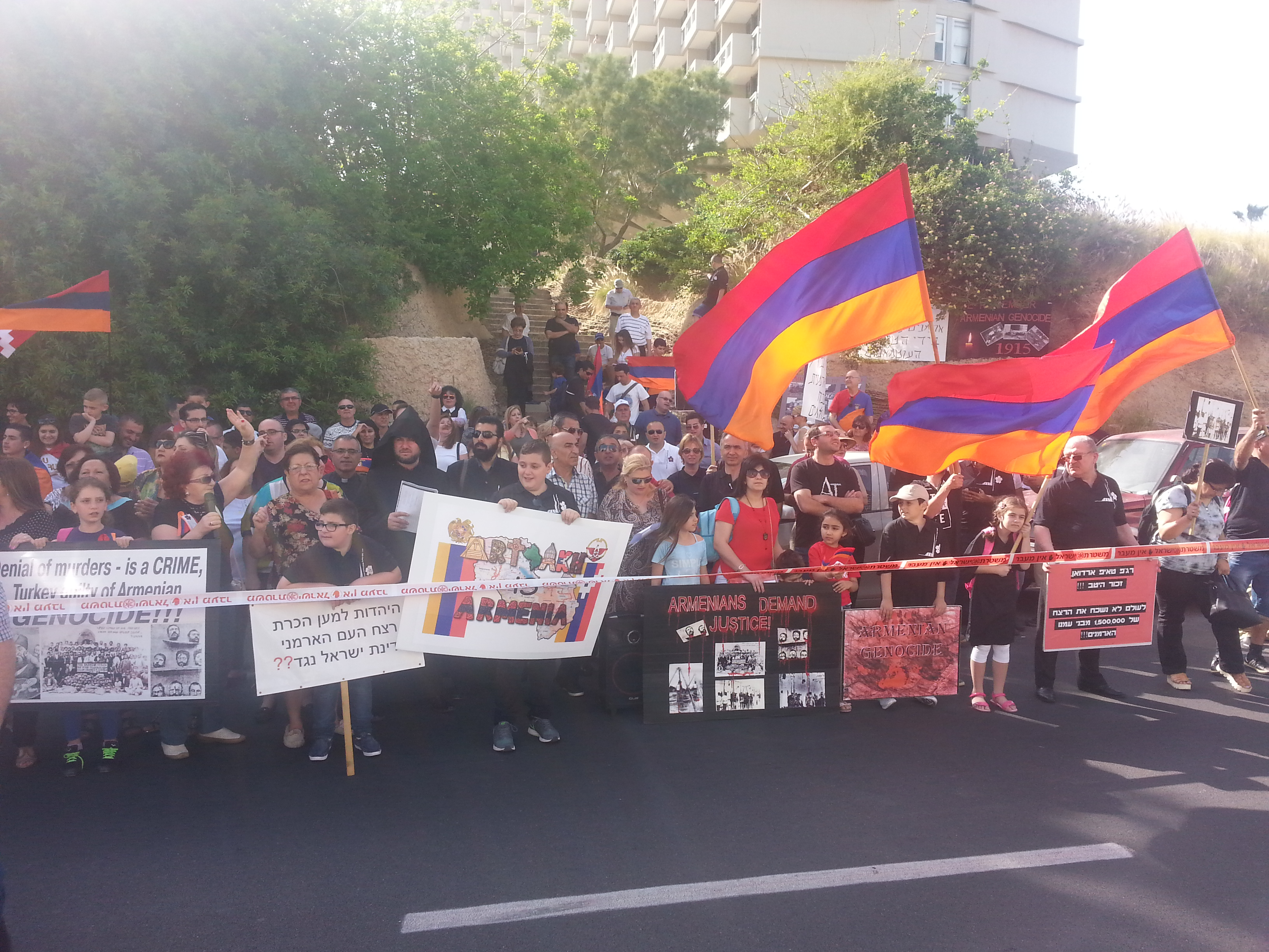 At the Turkish Embassy in Tel Aviv